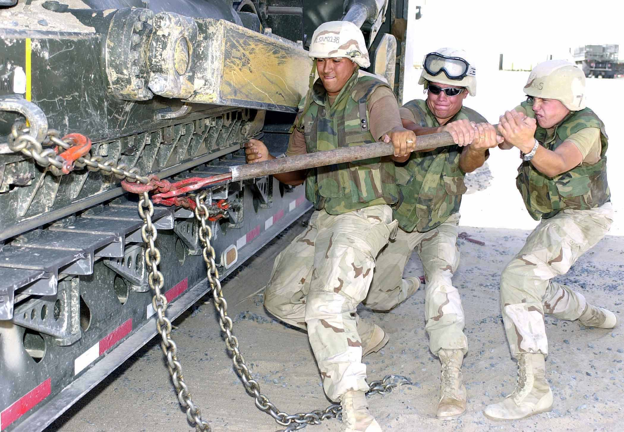 Camp Castle, Kuwait (Jul. 30, 2003) -- Equipment Operator Constructionman Matthew Earnest, Equipment Operator Constructionman Jonathan Vanac and Equipment Operator Constructionman Apprentice Kirby Garrett use a breaker bar to secure a bulldozer before transporting it to Camp Moreell from Camp Castle. U.S. Navy photo by Journalist 1st Class Lisa Keding. (RELEASED)